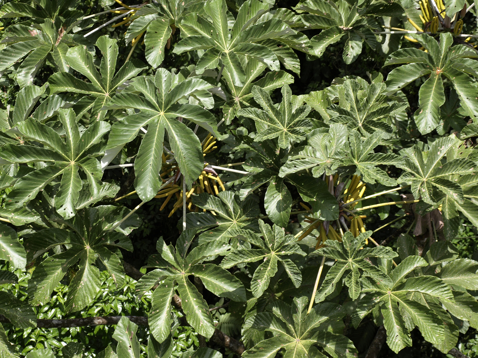 Arenal Hanging Bridges, Costa Rica